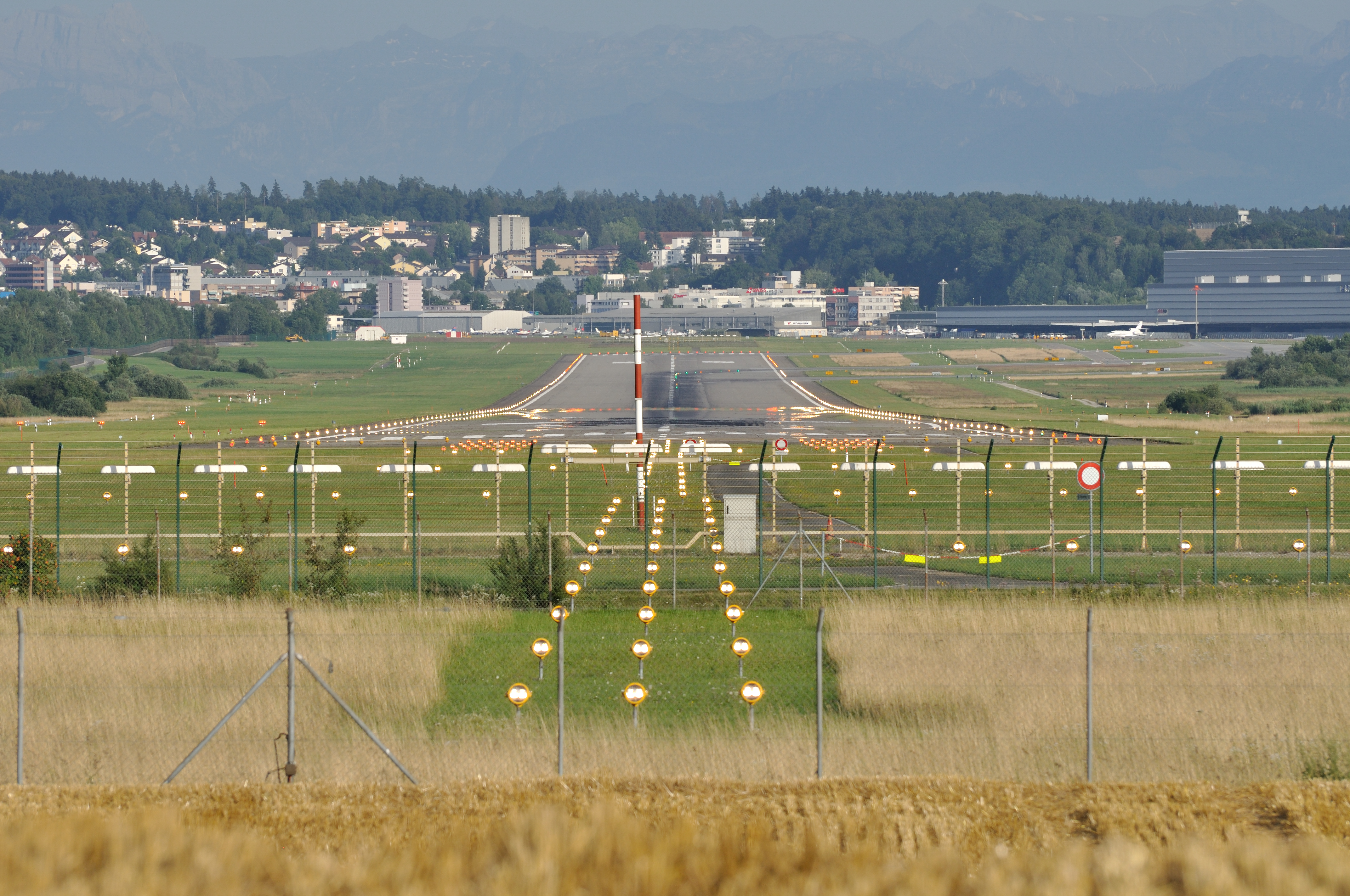 Switzerland, Canton of Zürich, spotting along runway 14 at Zurich International Airport